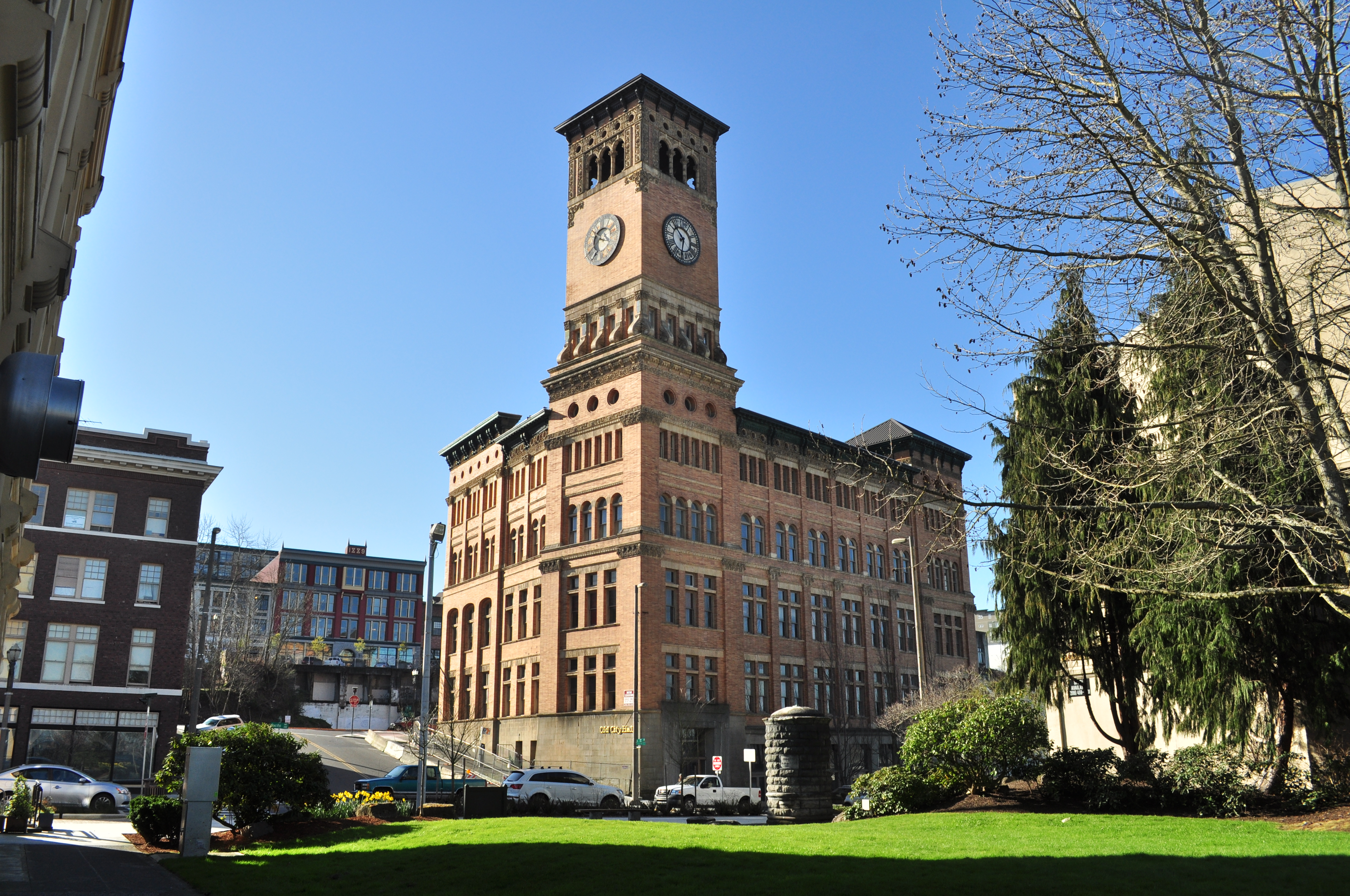 Old City Hall in Tacoma, Washington. On the National Register of Historic Places both in its own right and as part of the Old City Hall Historic District. Seen here from Fireman's Park.